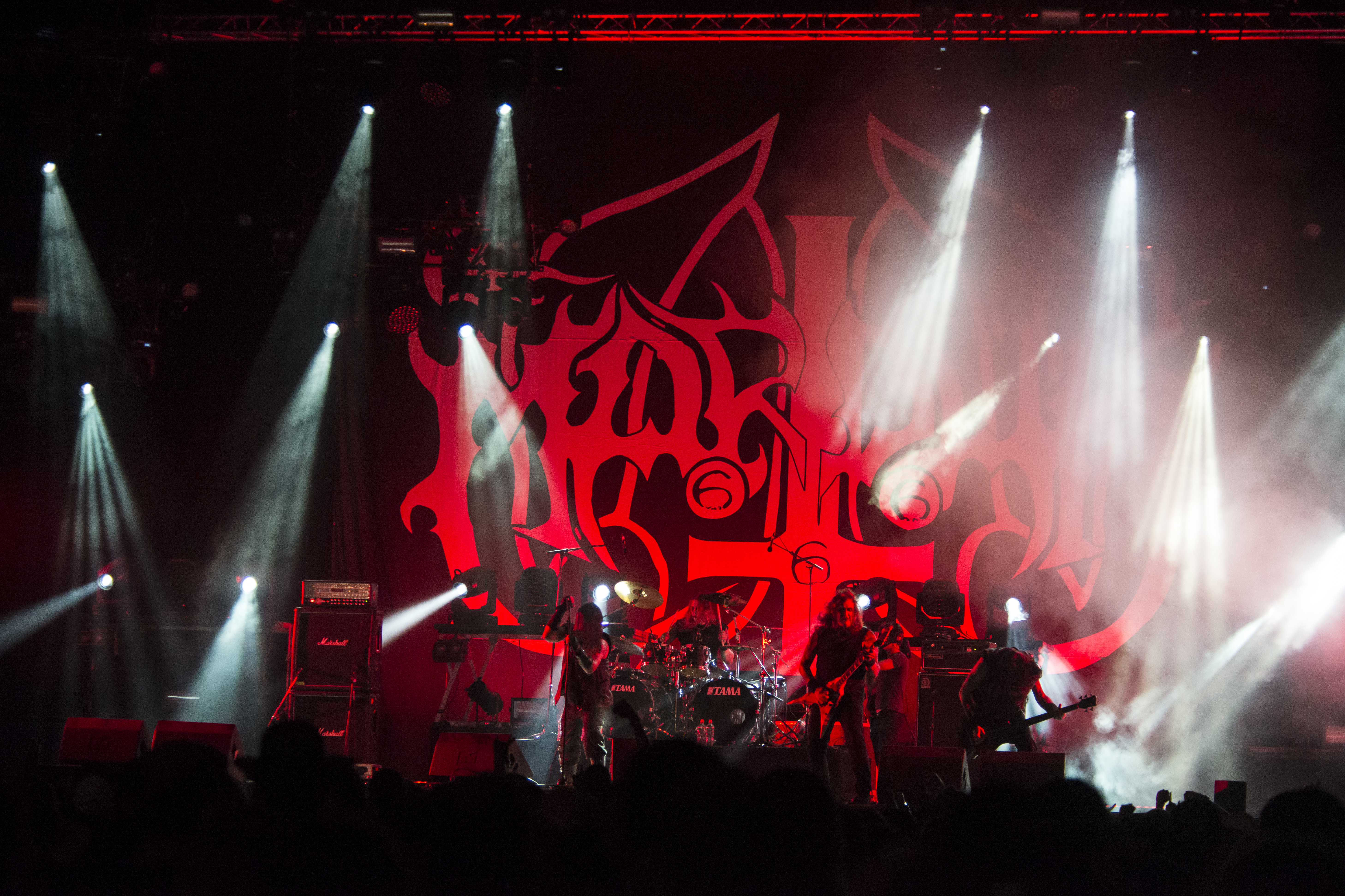 Swedish band Marduk at 2017 Hellfest, France.